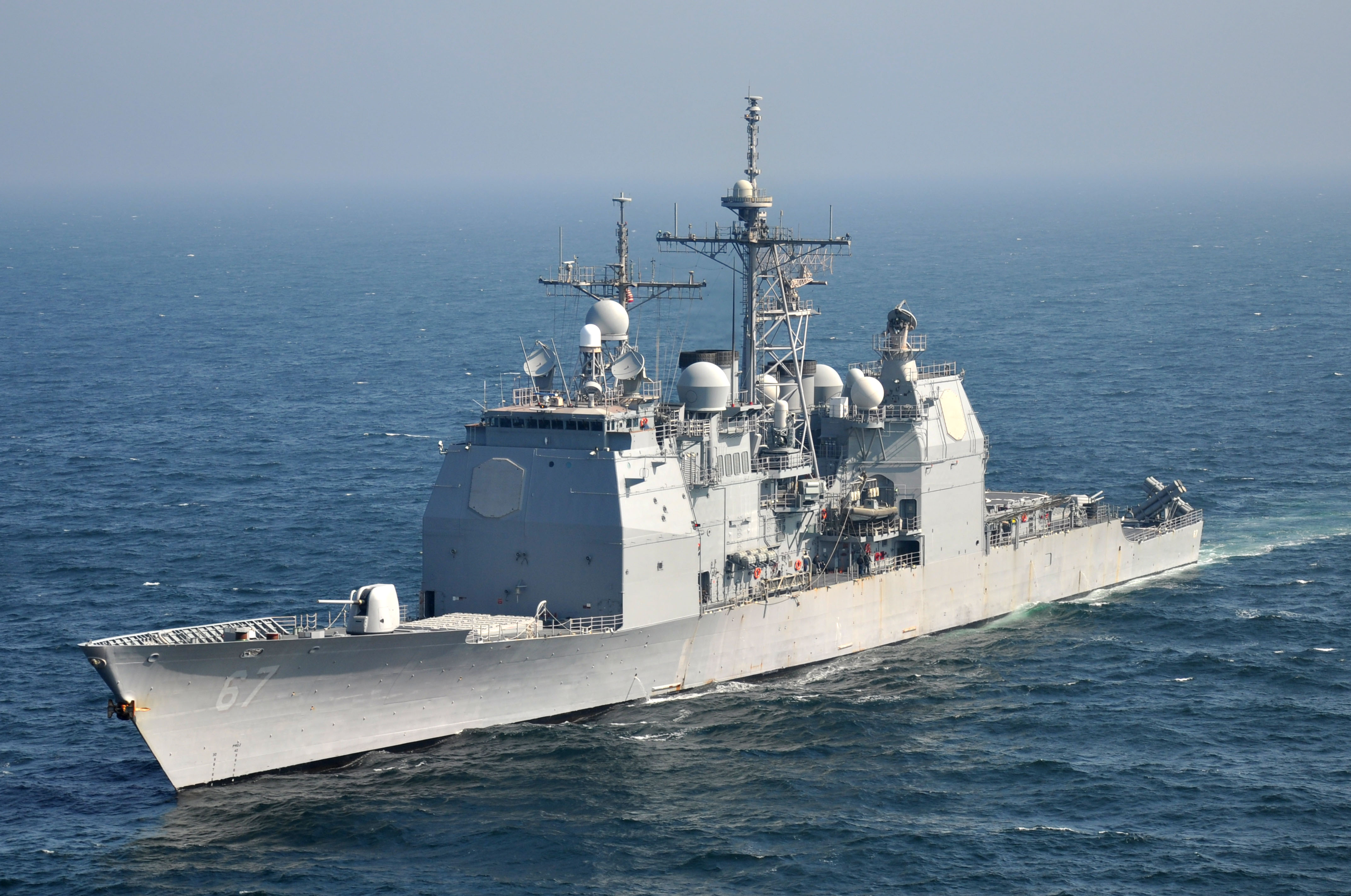 PACIFIC OCEAN (April 1, 2011) The Ticonderoga-class guided-missile cruiser USS Shiloh (CG 67) transits off the northeastern coast of Japan supporting the humanitarian aid and disaster relief operations of Operation Tomodachi. (U.S. Navy photo by Mass Communication Specialist 3rd Class Charles Oki/Released)